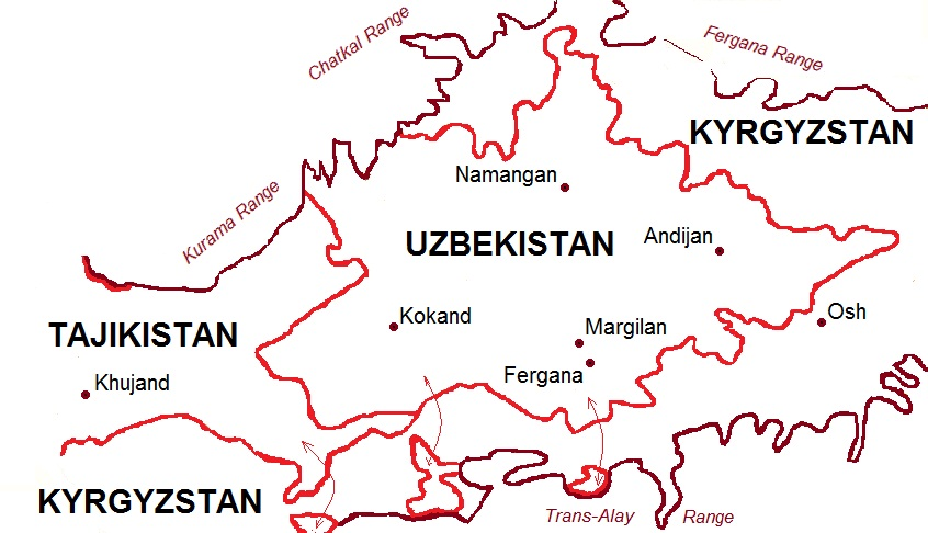 The partition of the Fergana valley among the neighboring countries